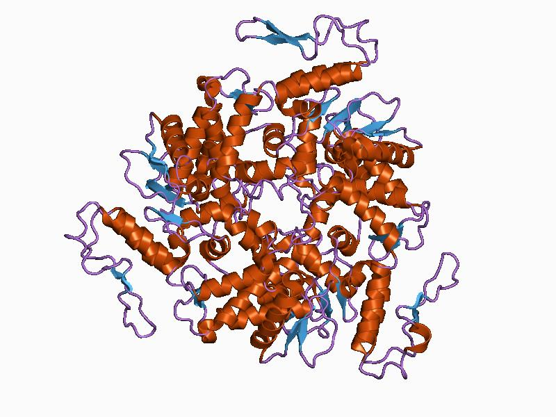 Cartoon representation of the molecular structure of protein registered with 1d5f code.